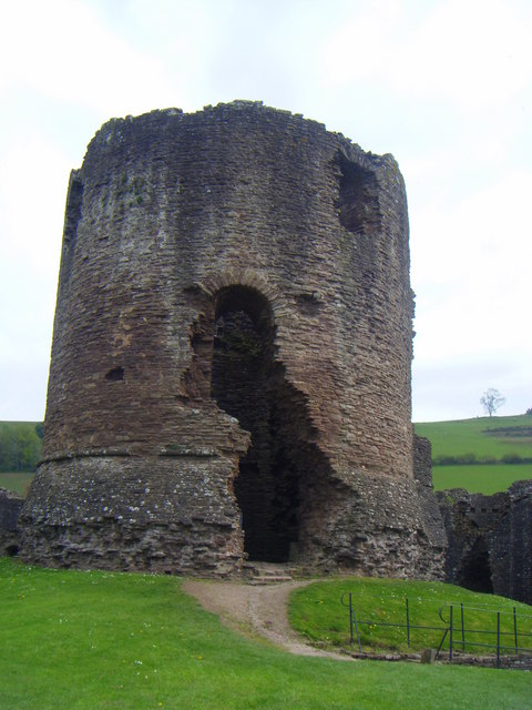 Keep of Skenfrith Castle